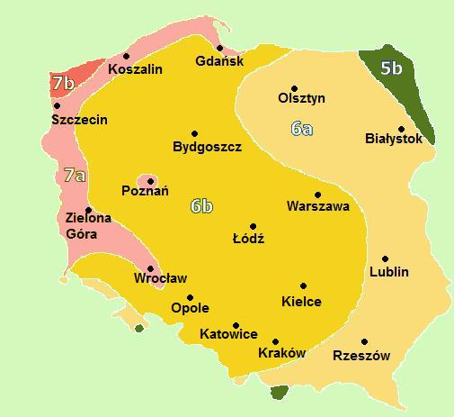 Frost hardiness zones in Poland